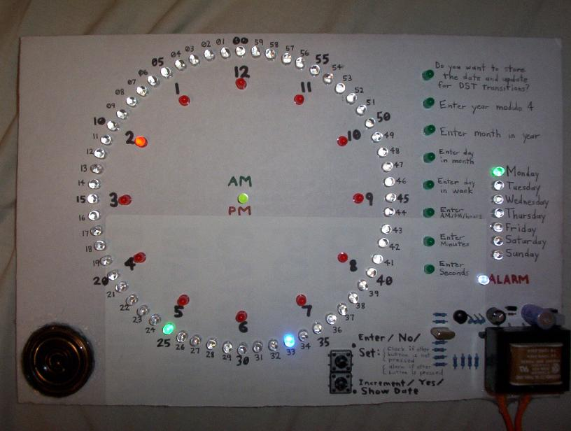 This is an image of a clock I designed, built and photographed entirely myself which uses Charlieplexing (though I did not know I was only reproducing someone else's display method, I thought I was inventing it for the first time) - Note that there are 90 LEDs used exactly (you must count the LED in the center twice as it is a bicolor LED, green for AM and red for PM), which are controlled by 10 I/O pins of a PIC16C54 microcontroller, and that is the fundamental limit to the number of LEDs that can be controlled by that number of pins through Charlieplexing. Also note there are 2 input switches and an additional output to a speaker for the alarm, so the entire device uses 13 I/O pins, the total amount possessed by the PIC16C54, so it would in fact be impossible to add a single additional LED to this clock without sacrificing an input or the speaker output or requiring additional chips such as D flip-flops to demultiplex. As of this writing, this particular clock hangs on the office wall of Clayton Price, head of undergraduate administration for the Computer Science department of the Missouri University of Science and Technology. The writing to the right of the word "set" which is on the threshold of legibility at this resolution reads "Clock if other button is not pressed" followed by "alarm if other button is pressed".